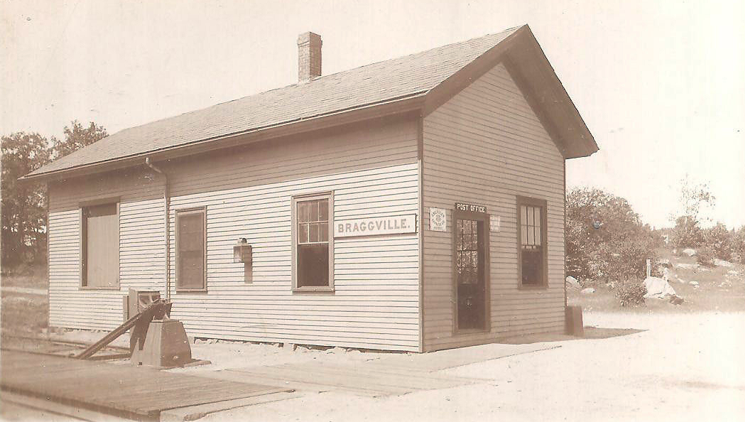 Photo of the Braggville, Massachusetts train station taken at an unknown date, presumably before 1919 when the depot closed. This date will need to be corroborated with further research; originally this image was taken from an unused postcard which read "P8717 R.R. Station, Braggville, Mass.".